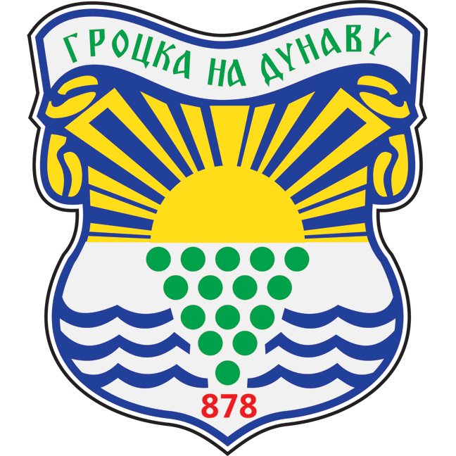 The Coat of arms of the city and municipality of Grocka in Belgrade, Serbia